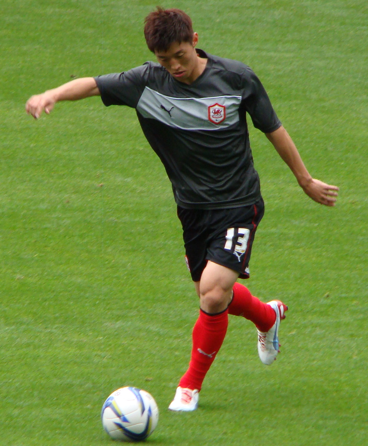 15/09/12 Cardiff v Leeds United, Championship, Cardiff City Stadium, Cardiff, Wales